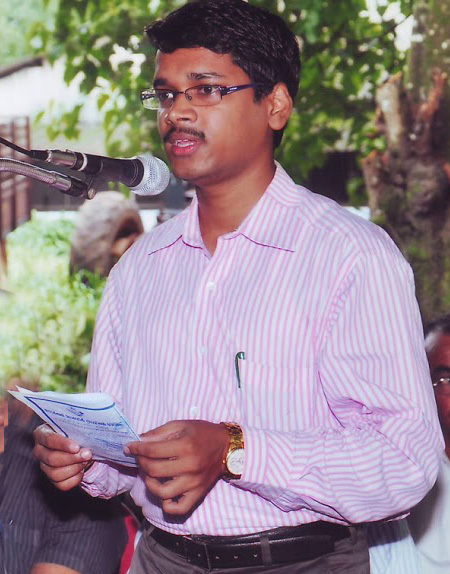 Keshvendra Kumar